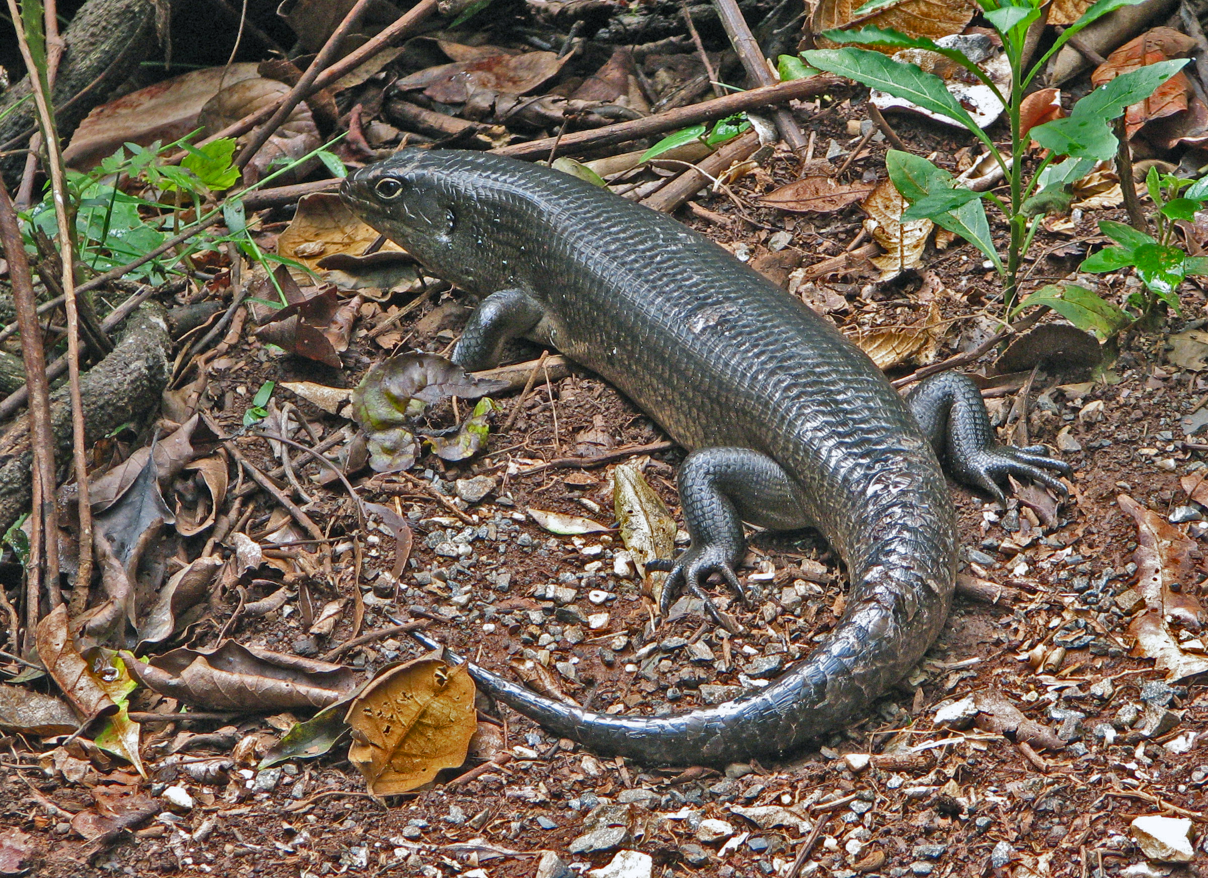 Land Mullet, Lamington National Park, Queensland